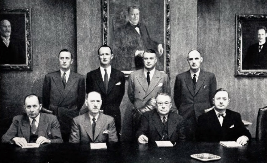 Executive committee of the Norwegian Employers' Confederation in 1950. From the left: Director Asbjørn Petter Østberg, publisher Nils Moe Nilssen, director Ansgar Eriksen, lawyer Kjell Meinich-Olsen, director Ring Amundsen, building constructor Johan L. Vister, director Christian Erlandsen and director Ingemann Torp.